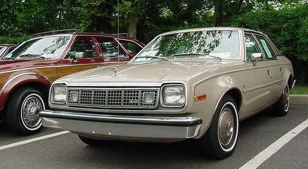 1978 Concord D/L four-door sedan - by American Motors Corporation (AMC)